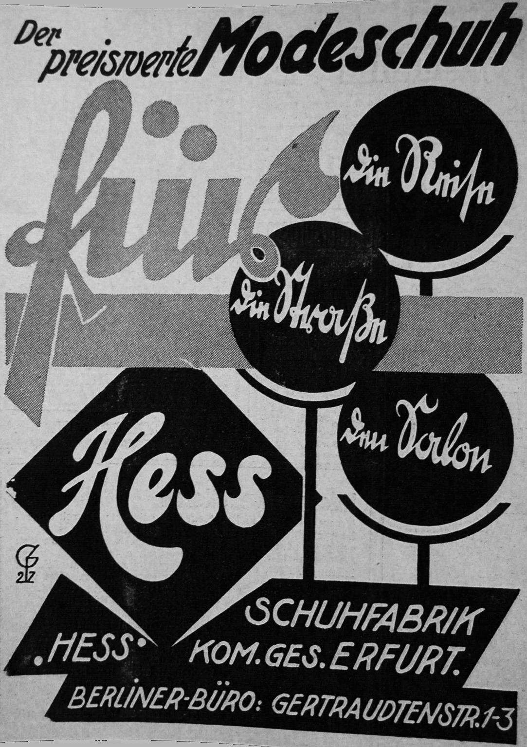 1927: Contemporary commercial poster and advertisement by shoe factory M. & L. Hess of Erfurt in Thuringia, Germany. M. & L. Hess stands for the two founders Maier Hess (1849-1915) and Louis Hess. Its text reads: The reasonably priced fashion shoe for travel, street or parlour – Hess shoe factory, private limited patnership, Erfurt. Berlin office: 1–3, Gertraudtenst.